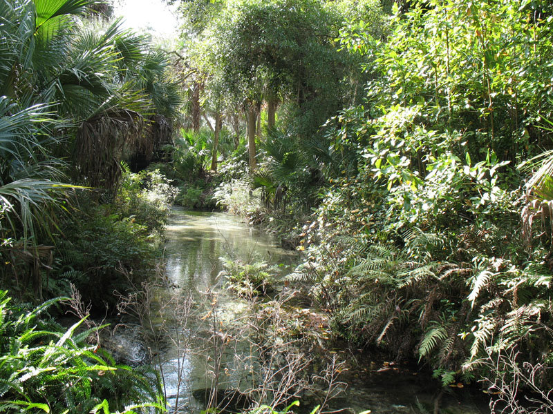 Juniper Springs, Ocala National Forest, 2007. Photo by Michael Messina.